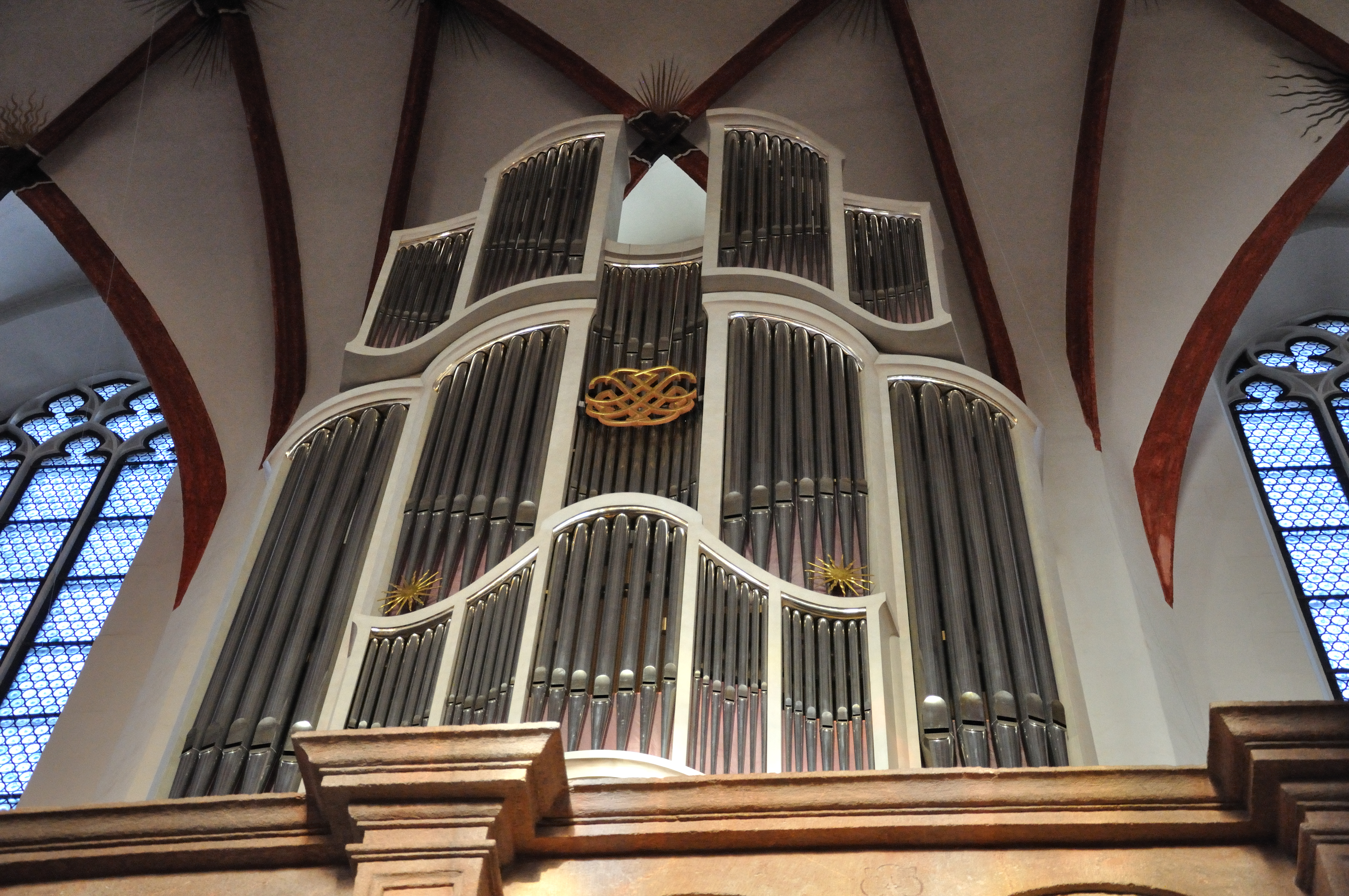 Photo of small organ in the Thomaskirche, Leipzig, bearing the monogram of J. S. Bach